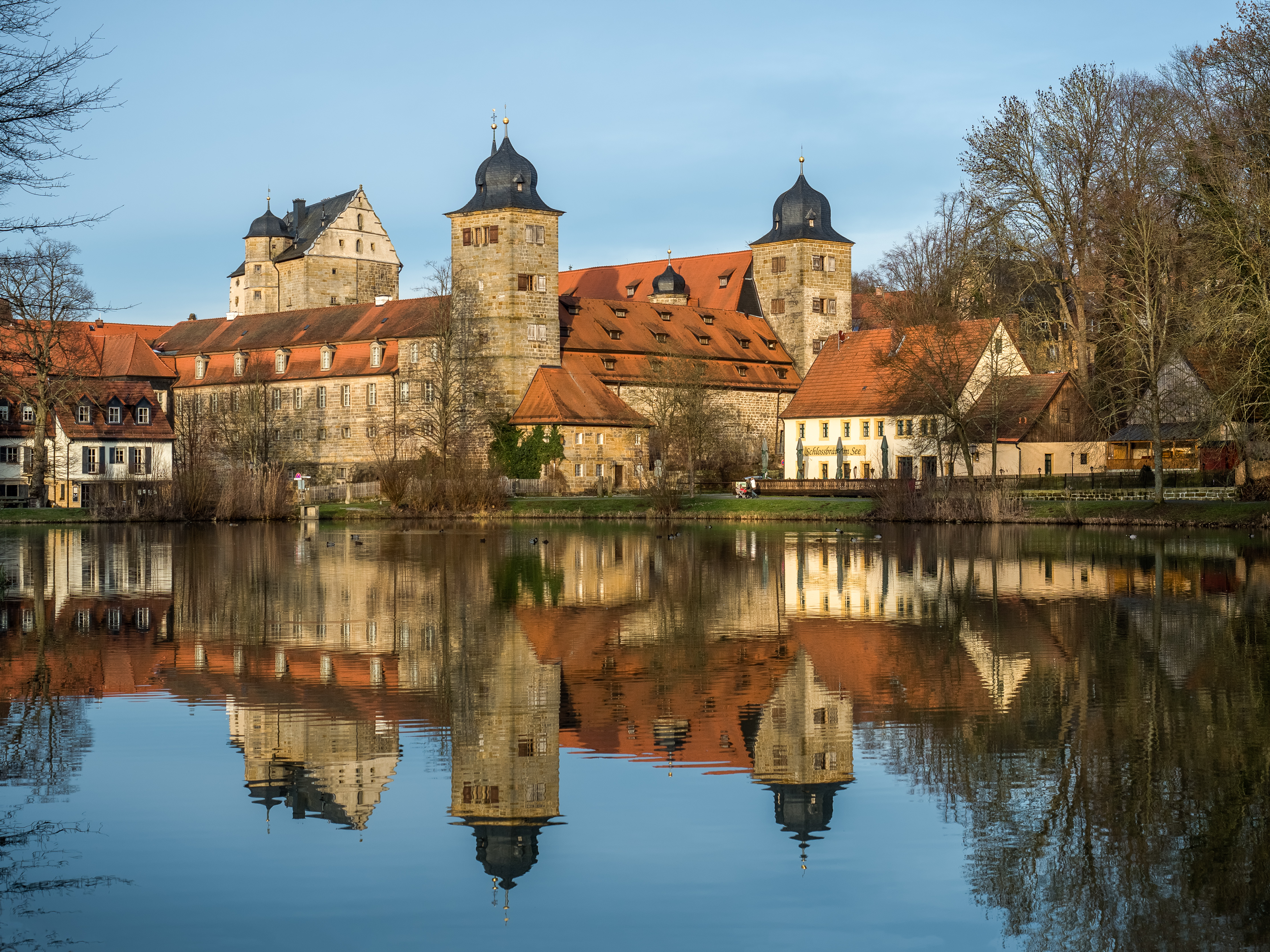 Upper castle in Thurnau near Bayreuth